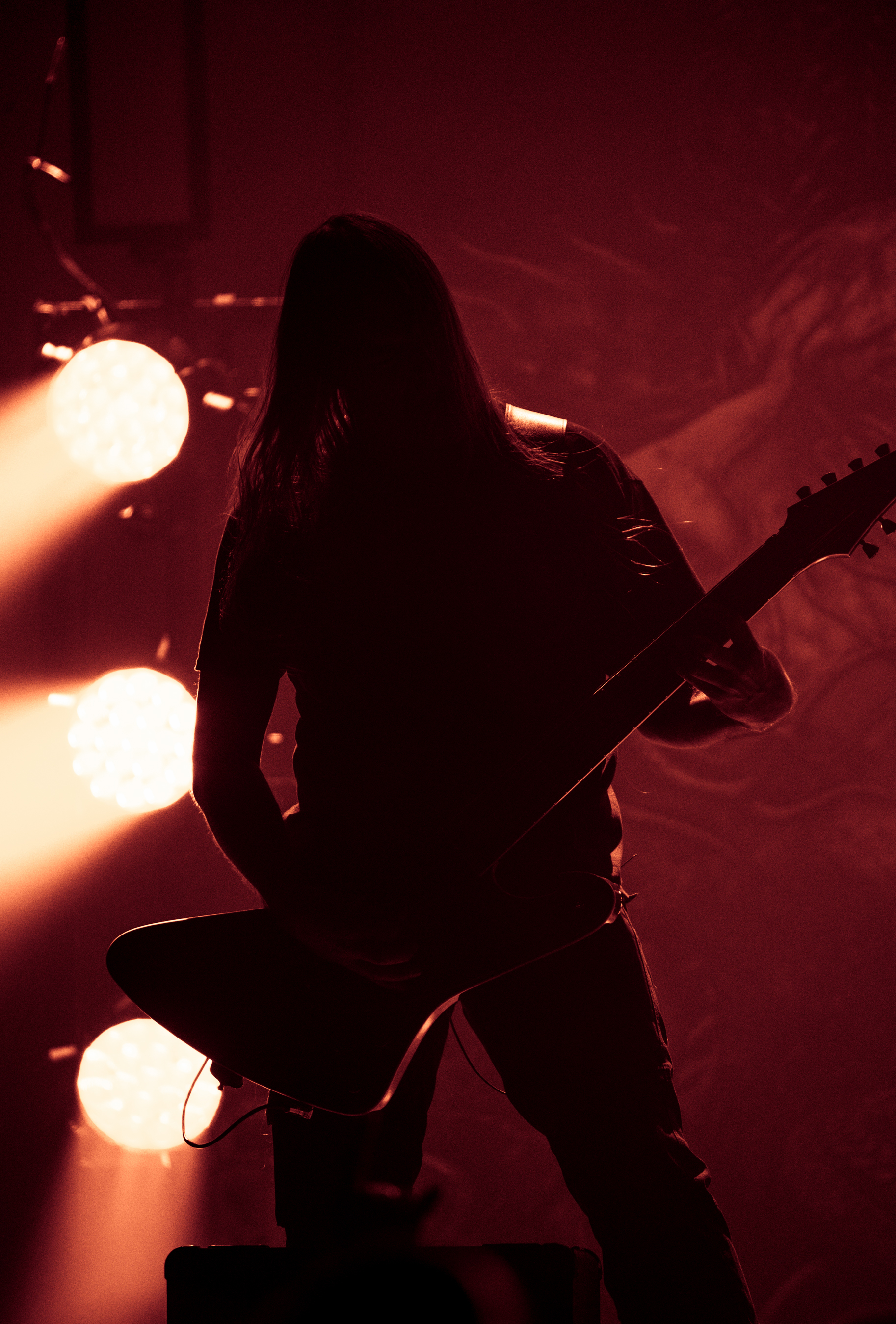 Guitarist Fredrik Thordendal, Meshuggah, live 2016.